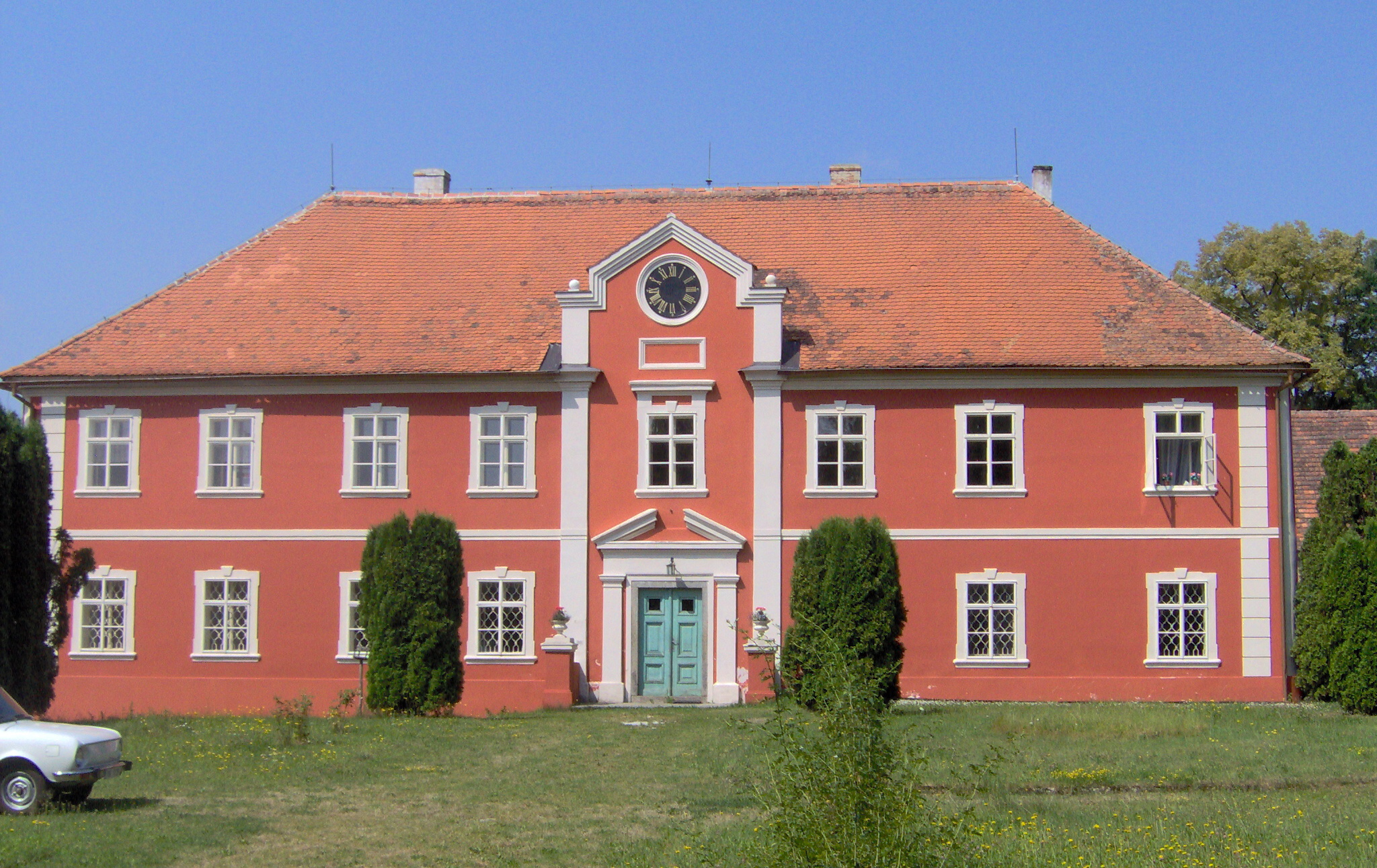 Castle in Hoštice, Strakonice District, Czech republic